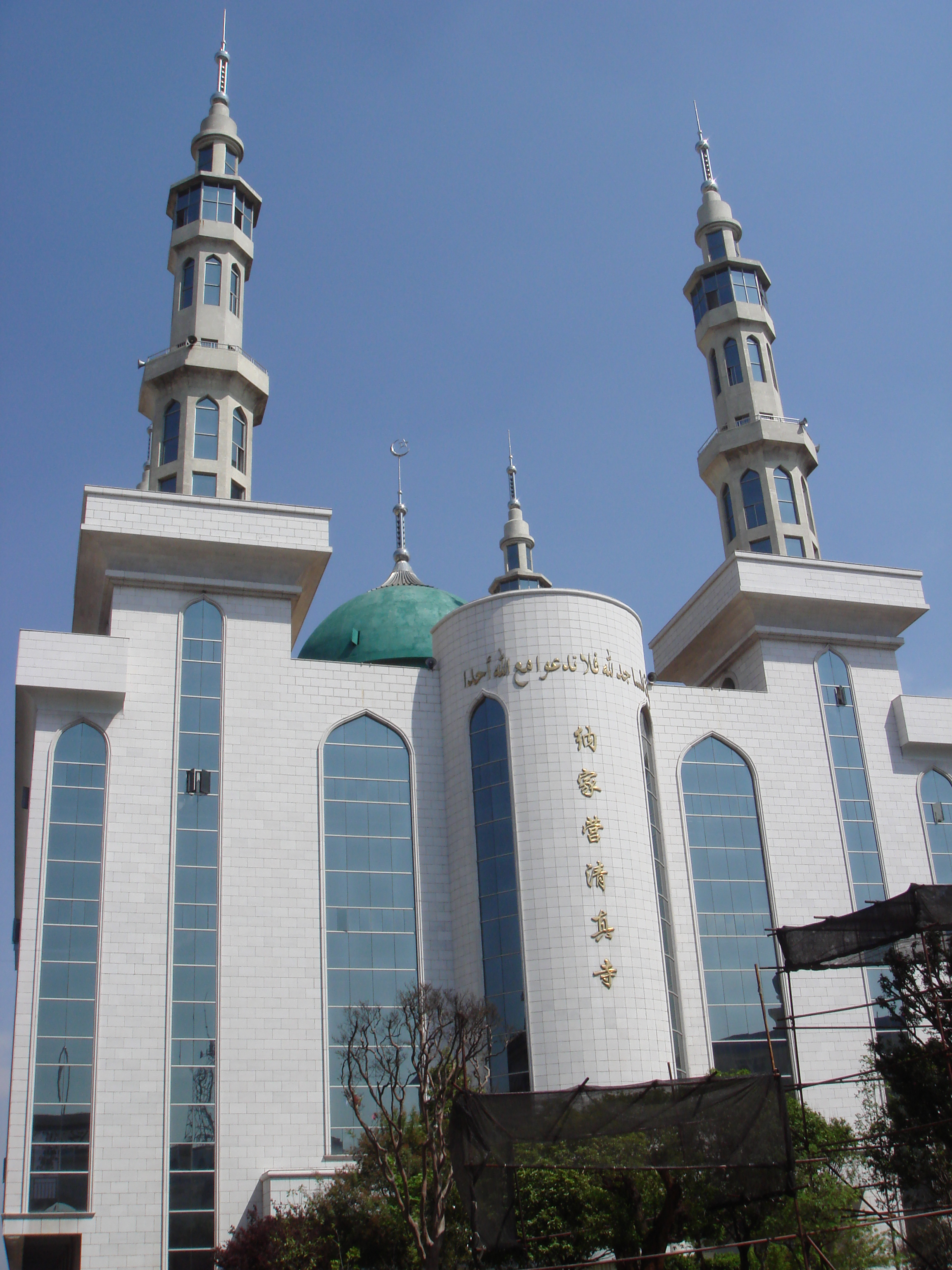 Najiaying Mosque (衲家营清真寺) on Tonghai County, in Yunnan, China